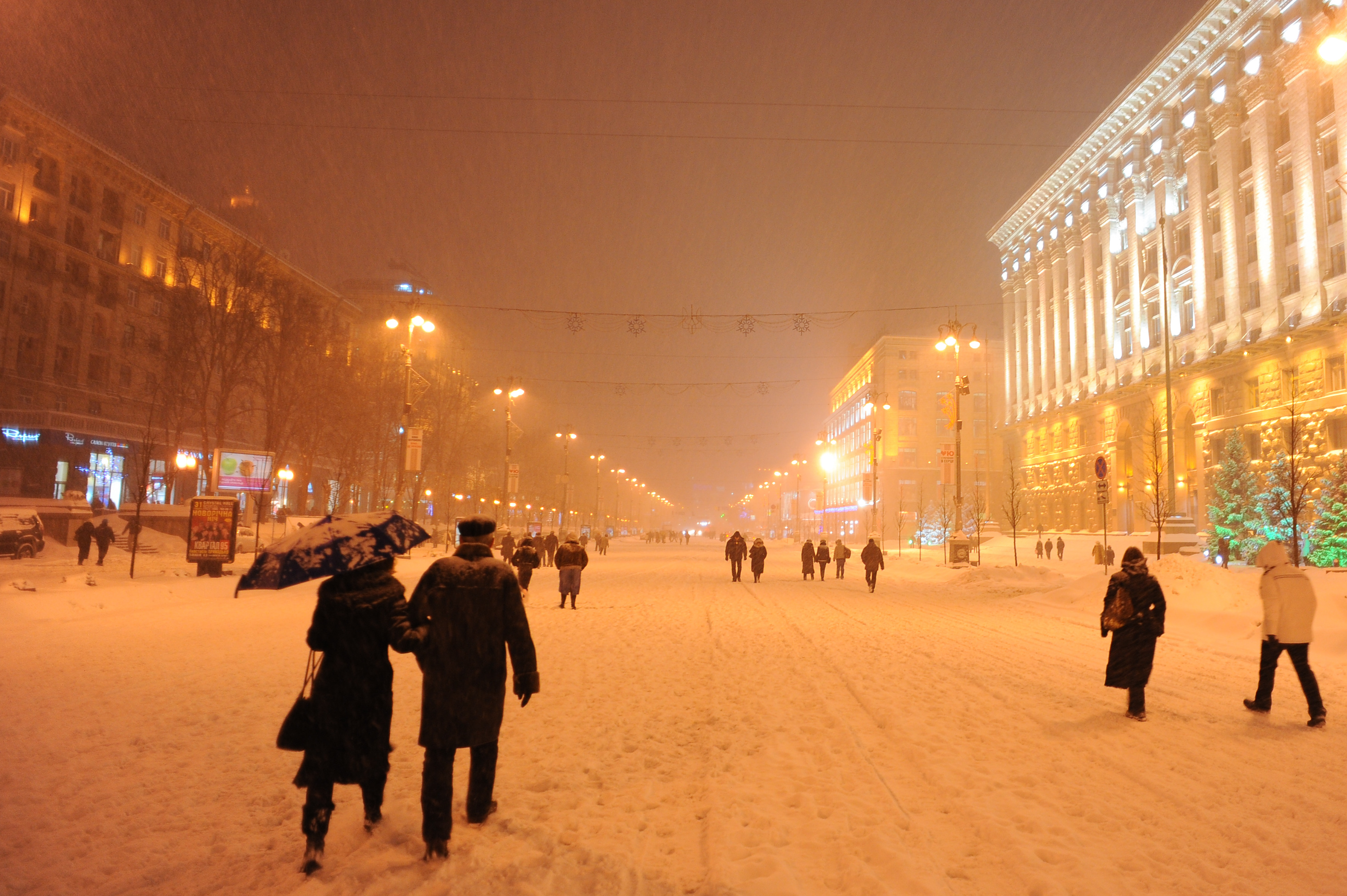 Khreshchatyk street (winter, eveningtime). Kiev, Ukraine, Eastern Europe.